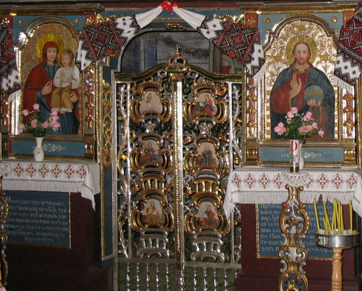 Śnietnica (Poland), Greek Catholic church, iconostasis